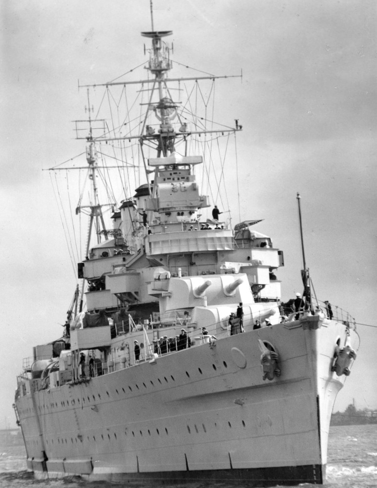 HMAS Australia.